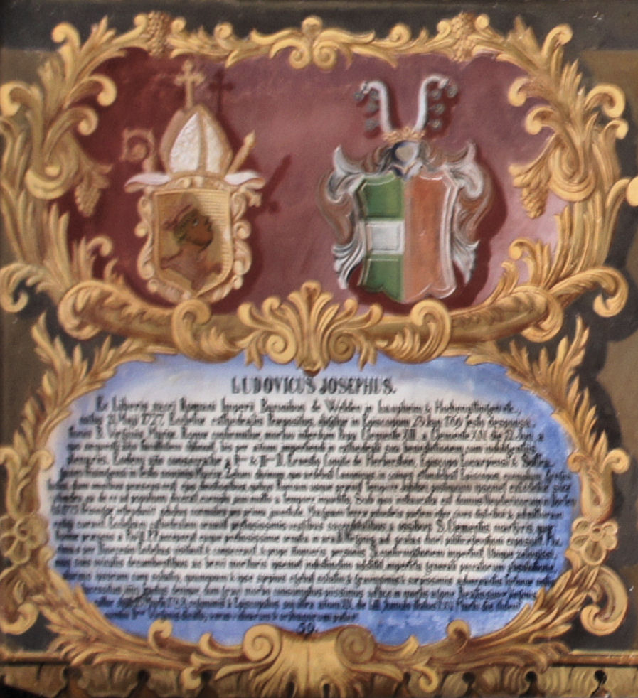 Wappentafel von Ludwig Joseph Freiherr von Welden, Fürstbischof von Freising, im Fürstengang zwischen Fürstbischöflicher Residenz und Freisinger Dom. Links das geistliche, rechts das persönliche Wappen, darunter ein lateinischer Text mit kurzer Biographie.